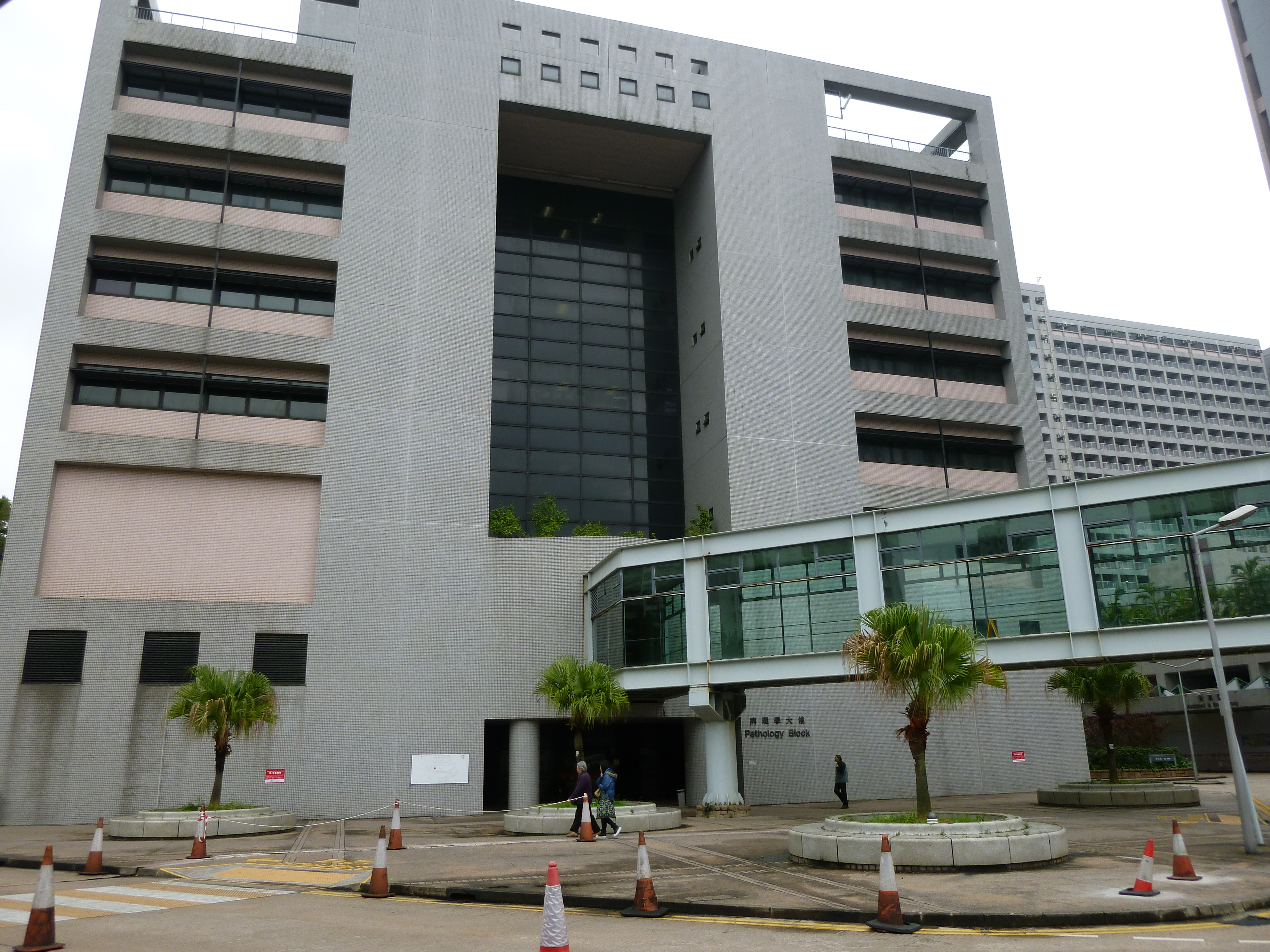 Pathology Block, Pamela Youde Nethersole Eastern Hospital